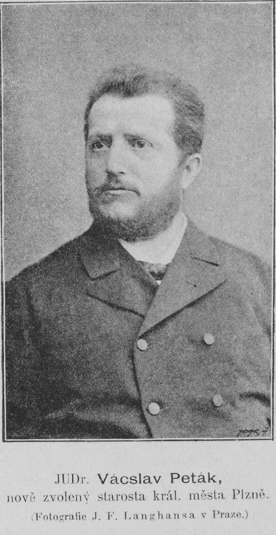 Portrait of Václav Peták (1842 - 1917), mayor of Plzeň.